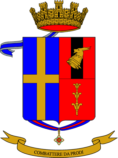 Coat of Arms of the 85° Infantry Regiment; Italian Army.